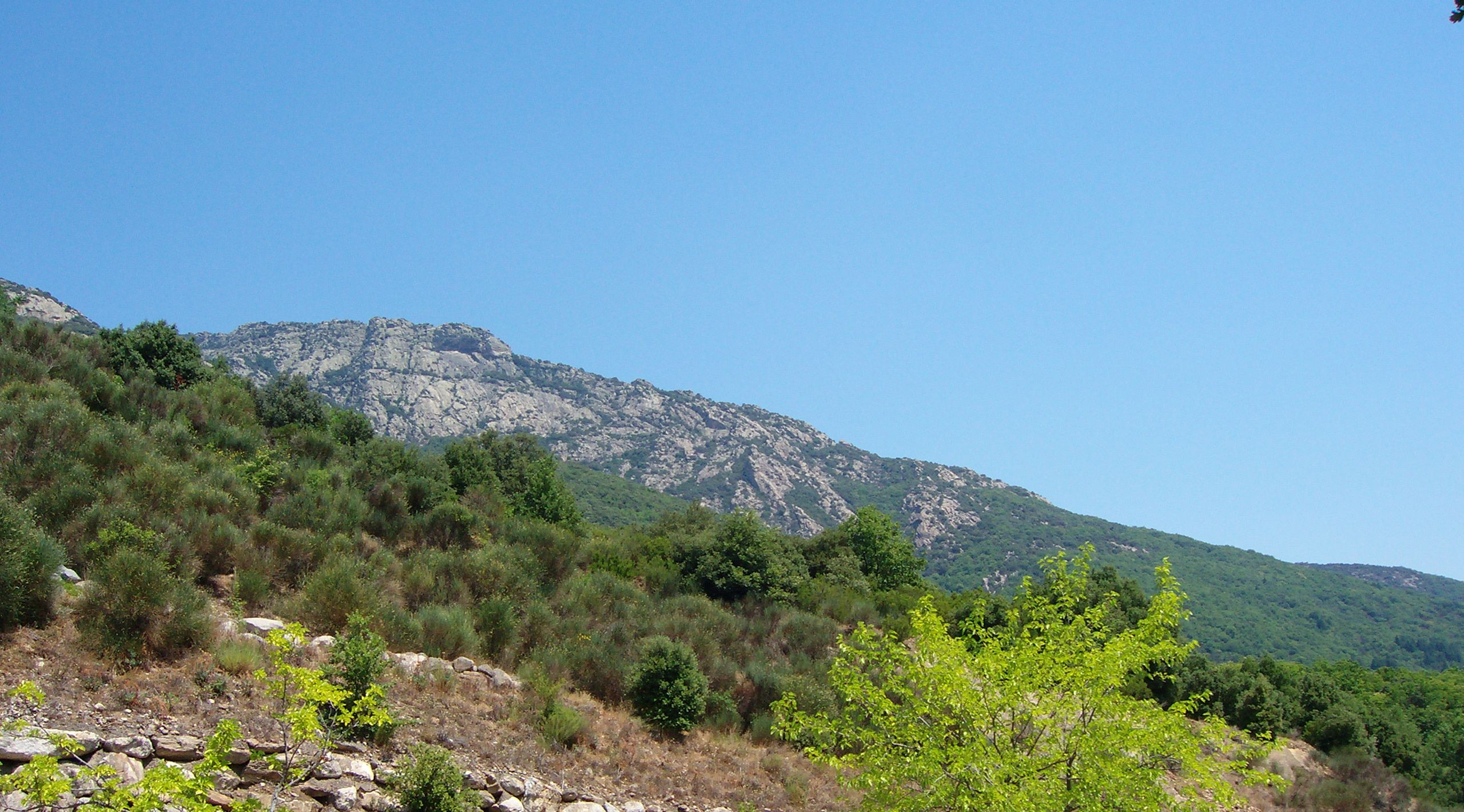 Landscape near Colombières-sur-Orb (Hérault).